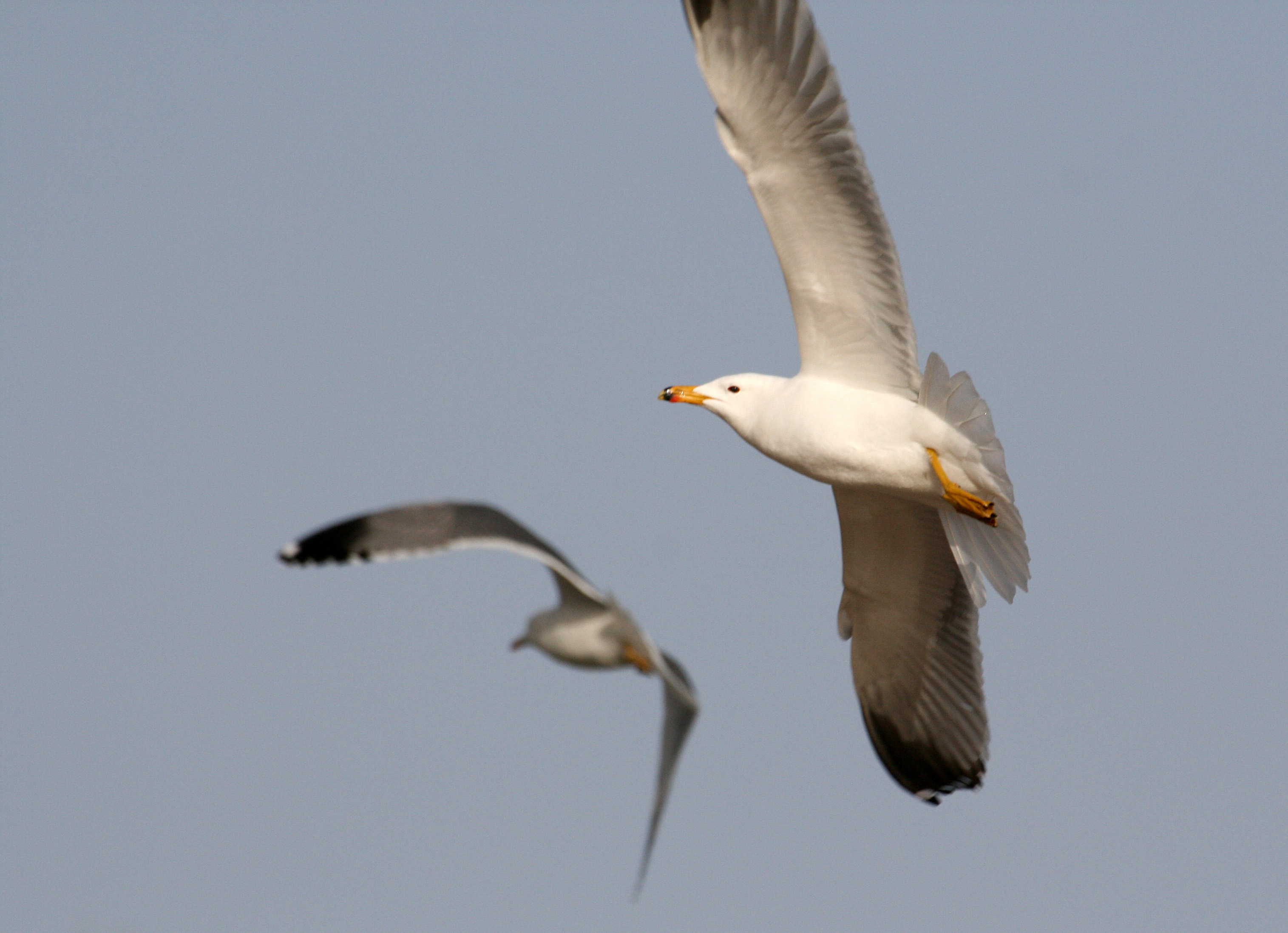 Armenian Gulls in flight, near Sevan lake